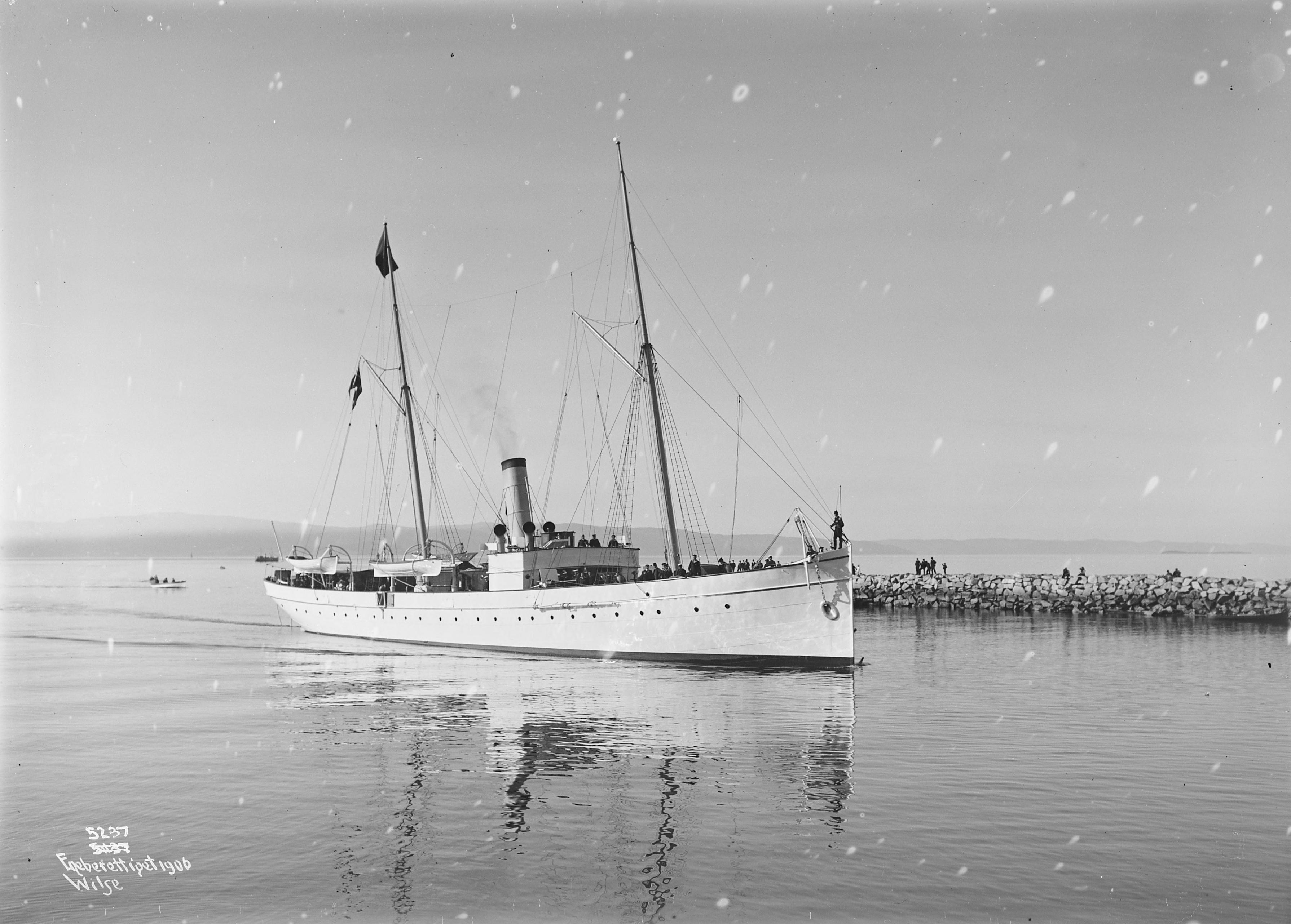 The Norwegian Royal Yacht Heimdal bringing King Haakon VII and Queen Maud of Norway to their coronation (22 June 1906) in Trondheim